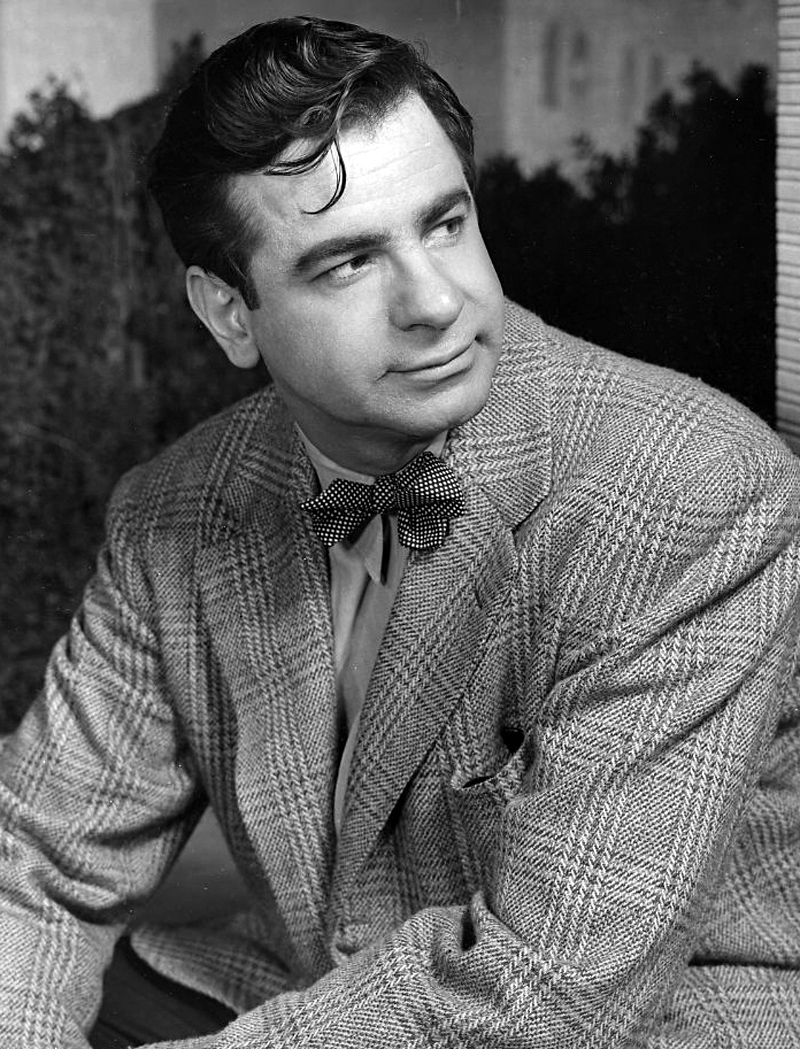 Publicity photo of Walter Matthau in Broadway play, Fancy Meeting You Again.